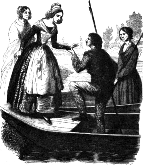 Fleur-de-Marie